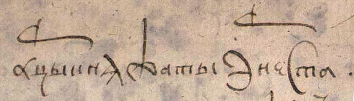 An example of early usage of letter Э in Russia